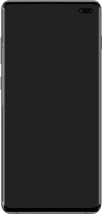 A design of the new Samsung Galaxy S10+ modified with a replaced black screen.